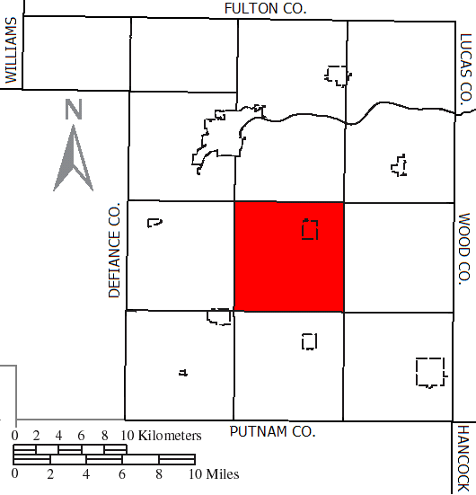 Made by the US Census and modified by myself